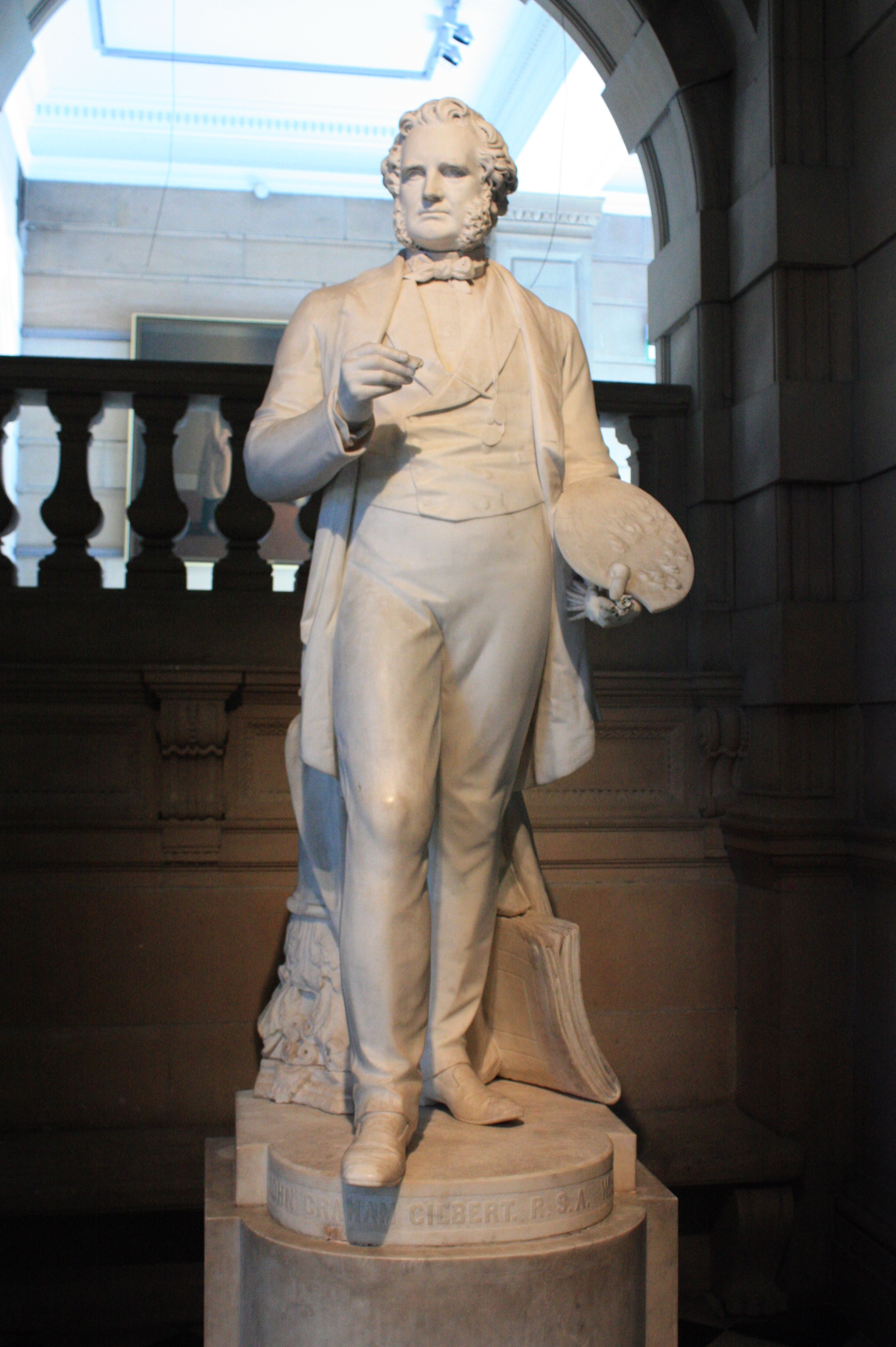 John Graham-Gilbert by William Brodie, Kelvingrove Art Gallery and Museum